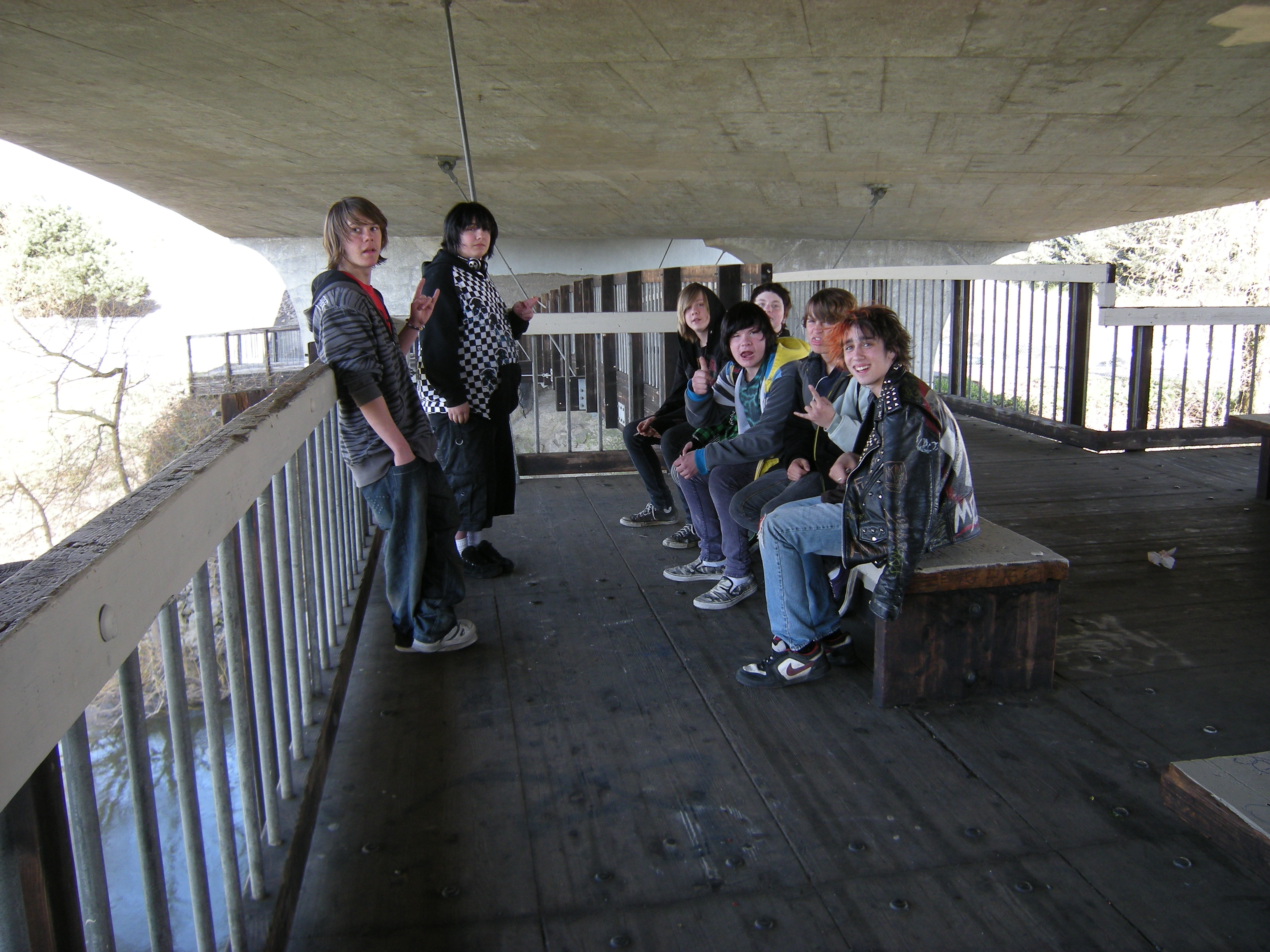 Teens hanging out on the pedestrian bridge under the bridge on the Kent-Des Moines Rd, just off of the Green River Trail, Kent, Washington.